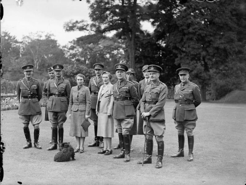 The British Army in the United Kingdom 1939-45 The Duke and Duchess of Gloucester, Lord Gort (commanding the British Expeditionary Force) and Lady Gort, with General Staff officers at the Staff College in Camberley, prior to the departure of Lord Gort and his staff to France, November 1939.